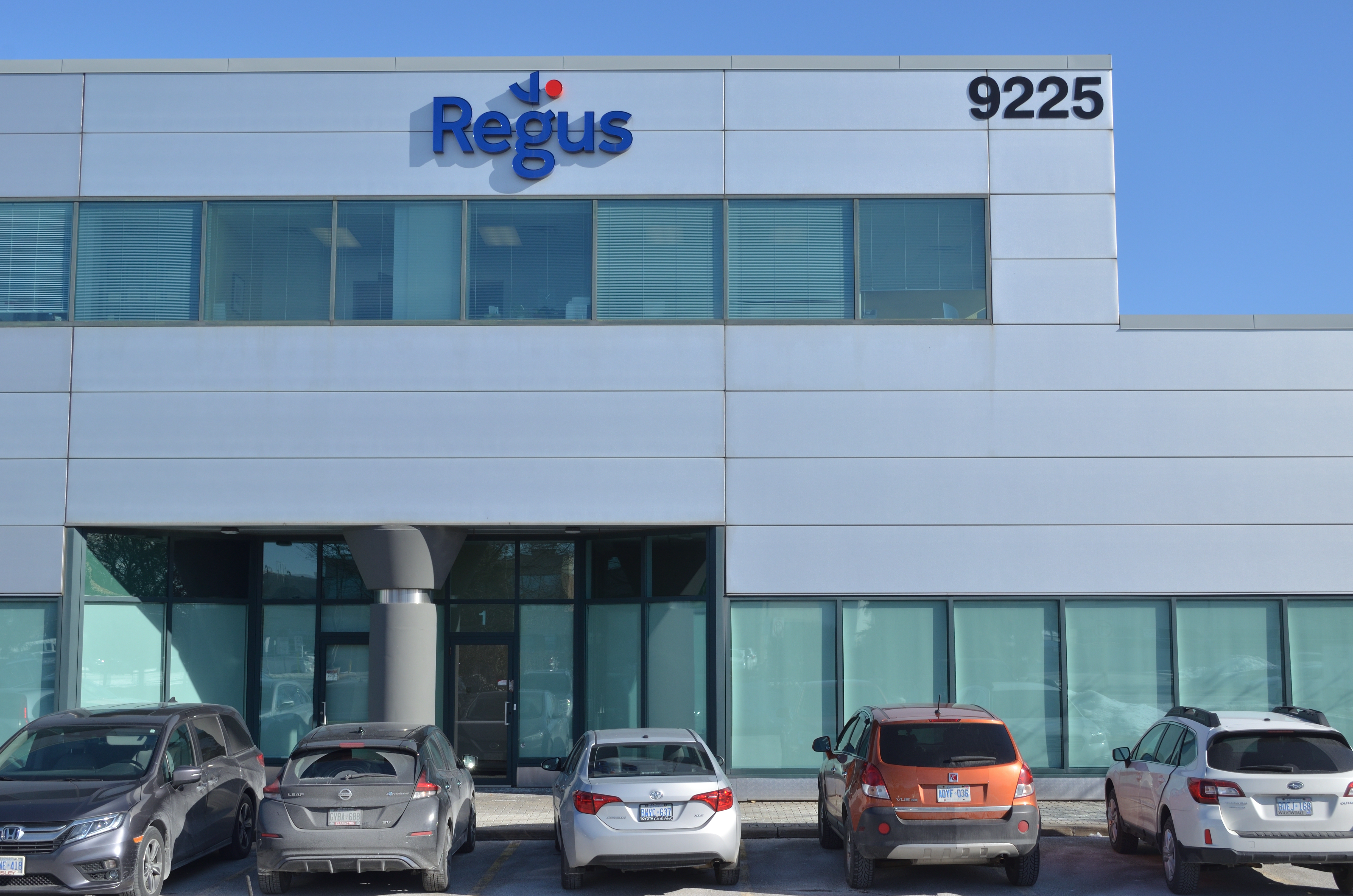 Regus - Address: 9225 Leslie St Suite 201, Richmond Hill, ON L4B 3H6